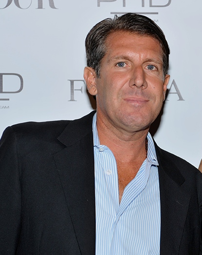 Michael Capponi Image shot at event